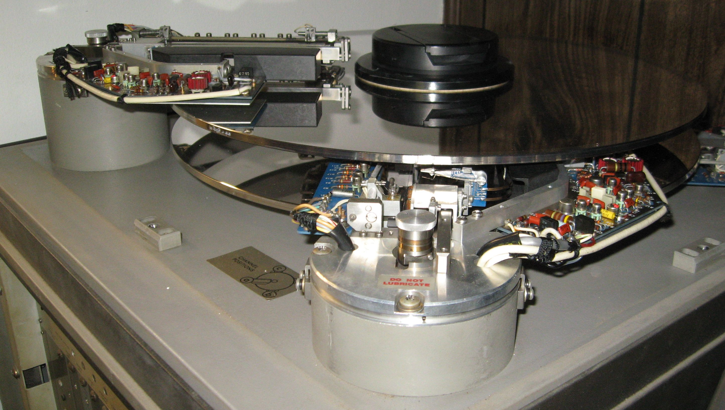 Telecineguy, at DC Video, BUrbank, Ca USA My Work